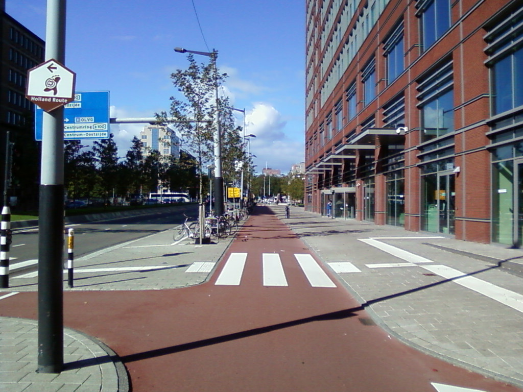 Main road cycle lane in Amsterdam, Netherlands, EU